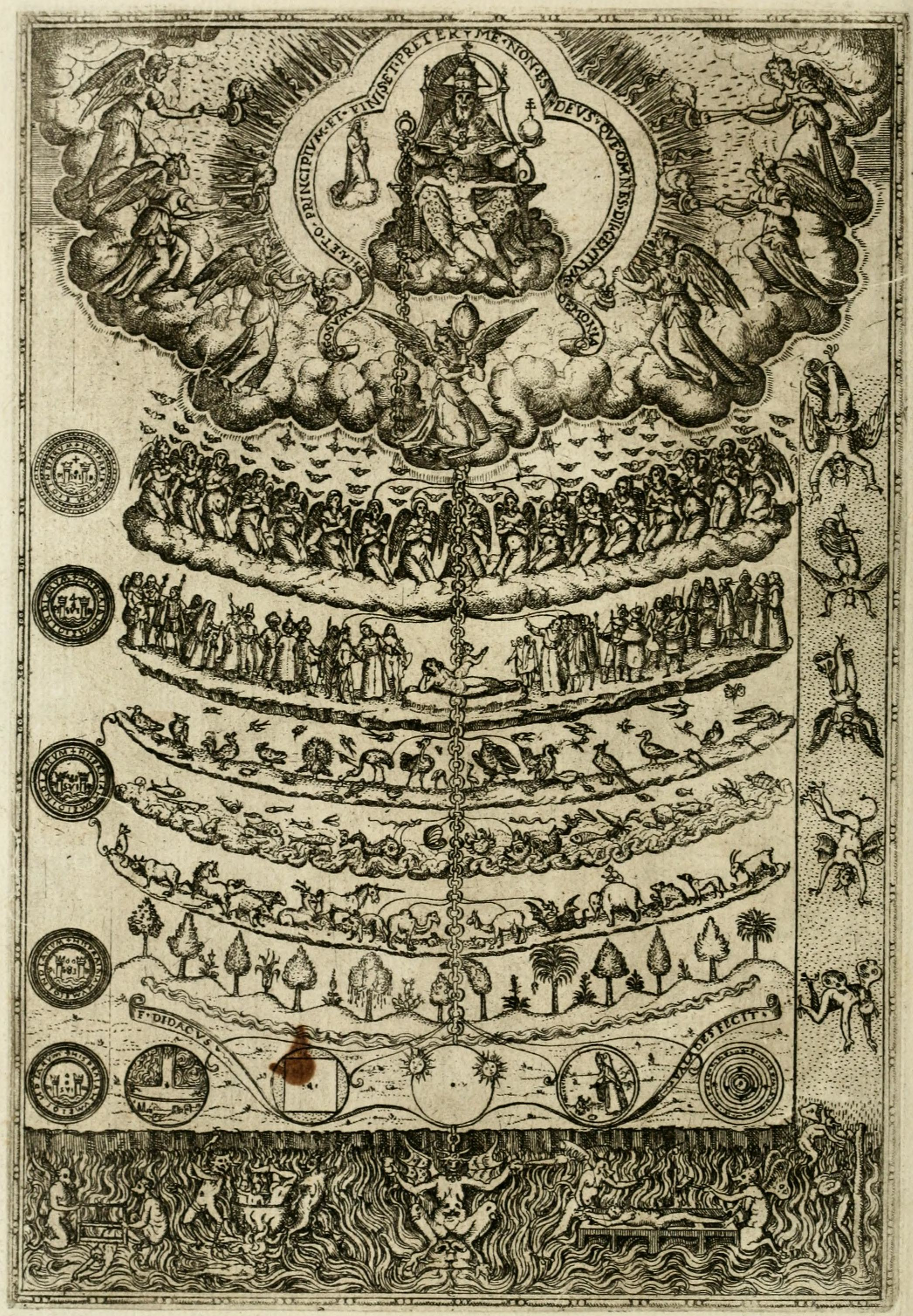 It is taken from Retorica Christiana, published by Diego Valdes (signed as F. Didacus in the bottom left)in 1579.